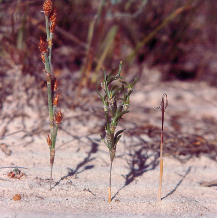 Alexgeorgea: At left, the aboveground shoot of a male plant, with inflorescences on it. Center, the aboveground shoot of a female plant—these shoots of female plants look like those of the males but have no flowers. At right, the stigmas and narrow tubular sheath of bracts around them. The female flower has been inserted into the sand for the purpose of this lineup: the bract sheath should have been inserted more deeply (the transition between white and purple in the bracts is where the soil surface is).